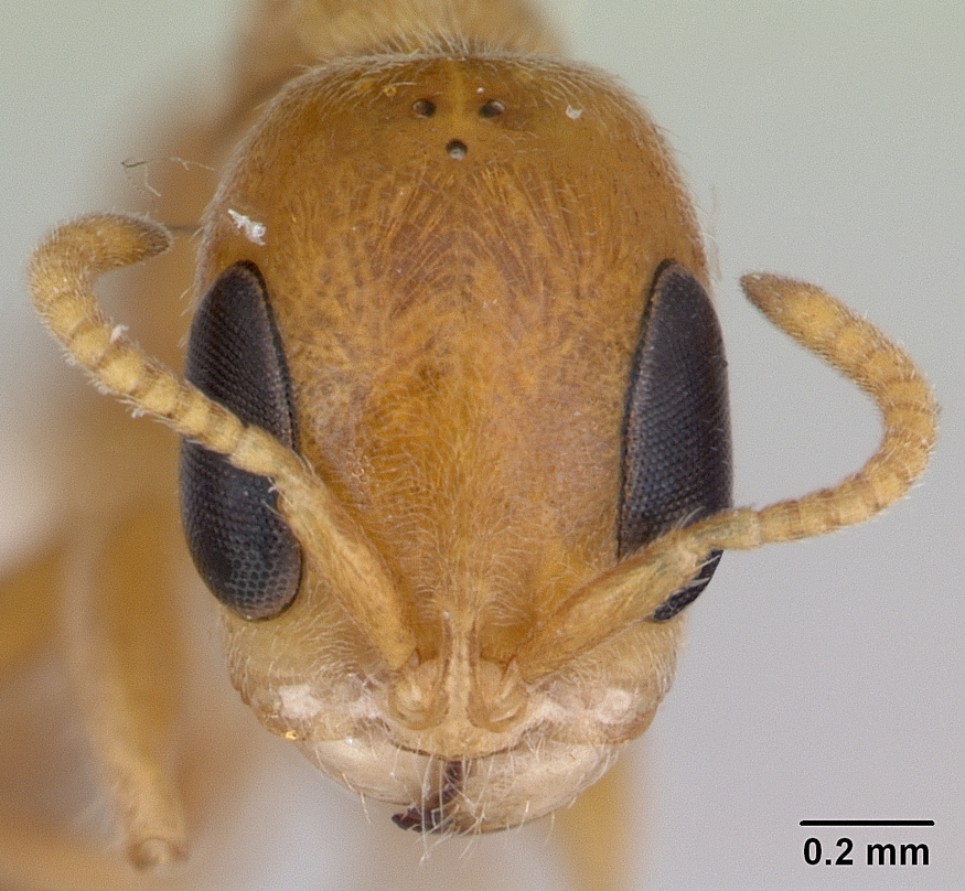 Head view of ant Pseudomyrmex filiformis specimen ent 142543 lacm ent 142543.